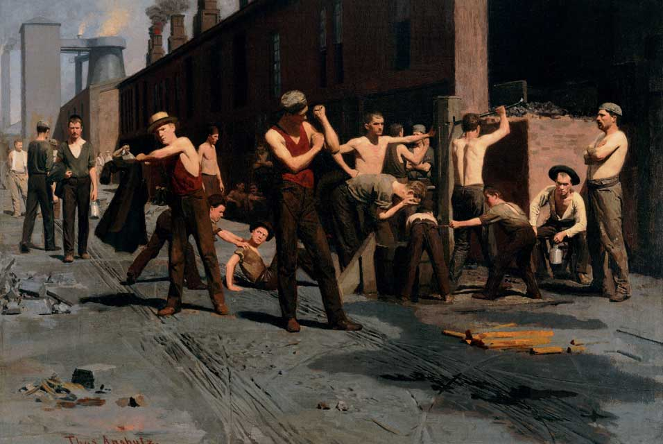 The Ironworker's Noontime, oil on canvas painting by Thomas Pollock Anschutz, 1880, De Young Museum